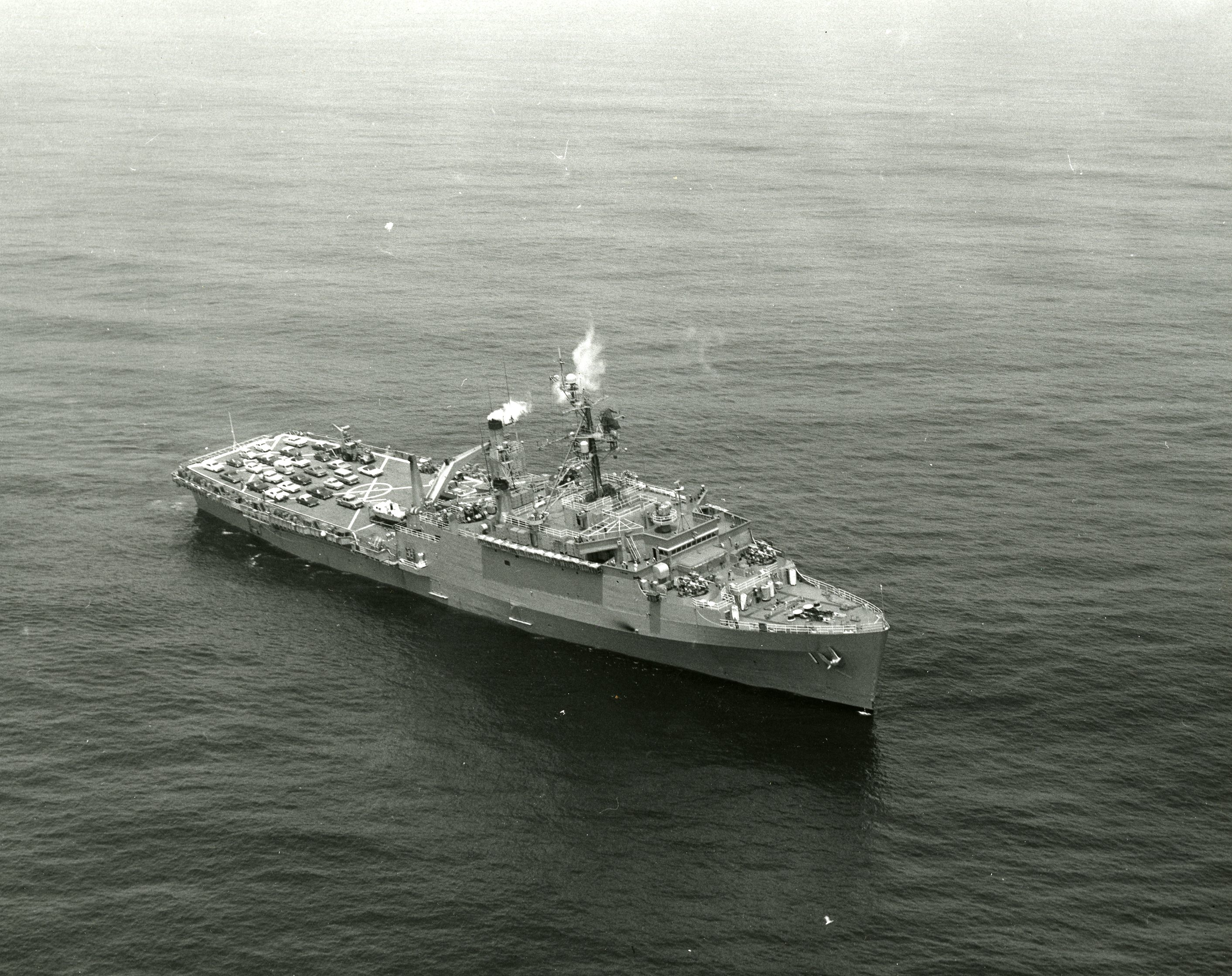 The U.S. Navy amphibious transport dock ship USS Raleigh (LPD-1) on 14 June 1968.